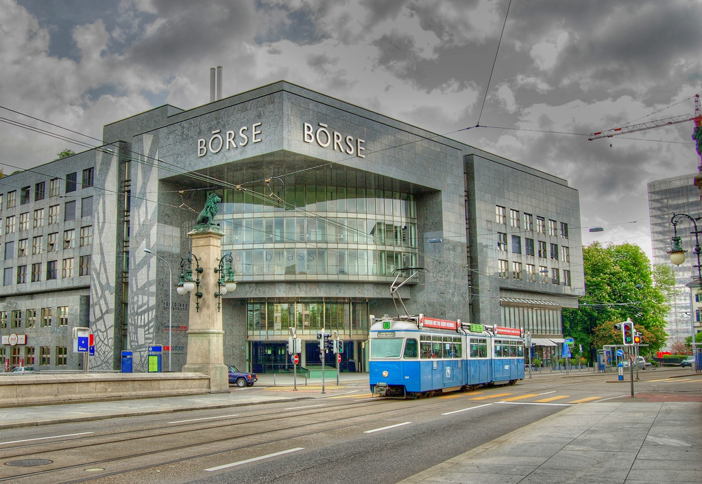 SWX Swiss Exchange